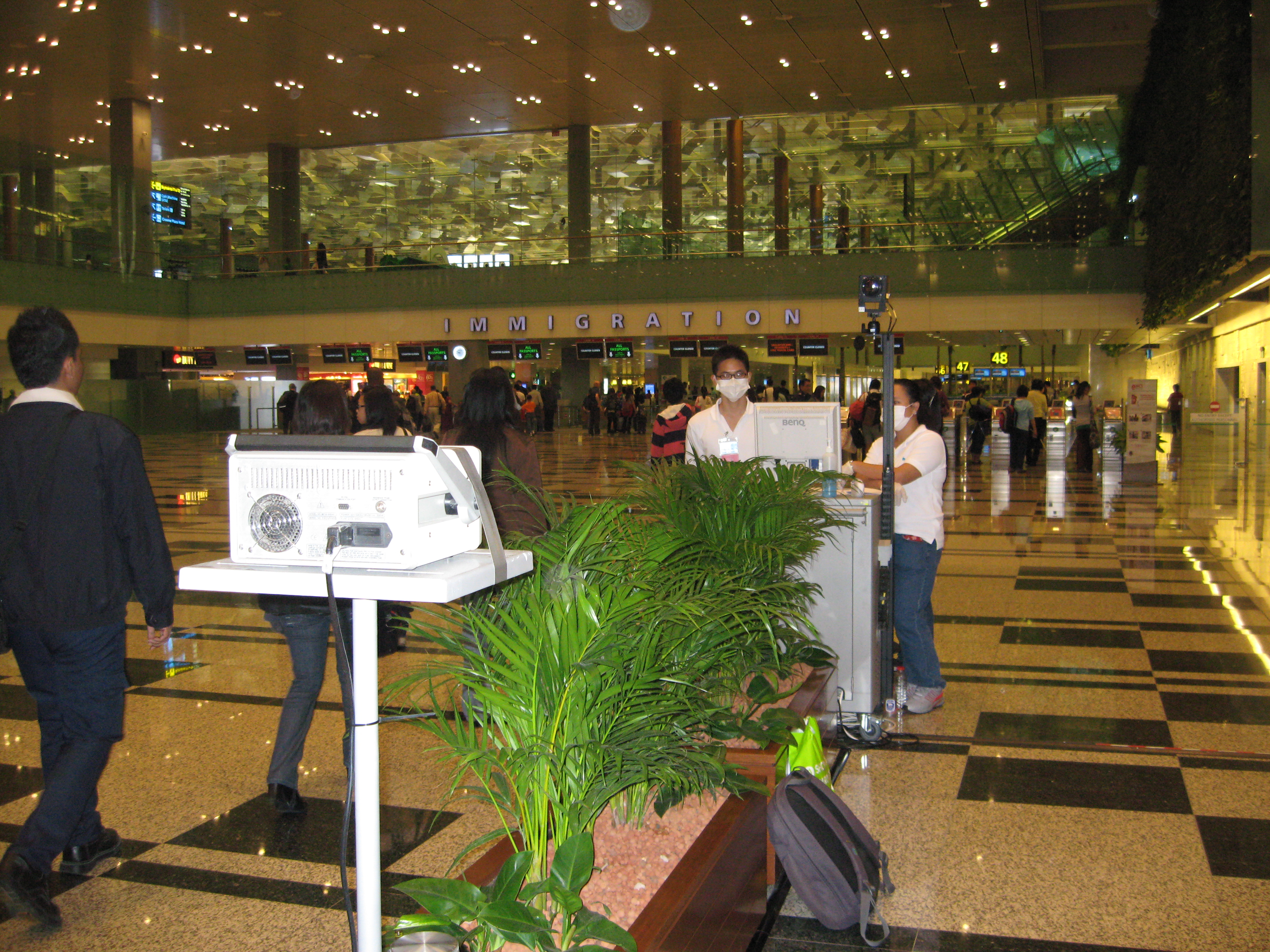 Arrivals at Singapore airport terminal 3, scanning for fever in response to swine flu.